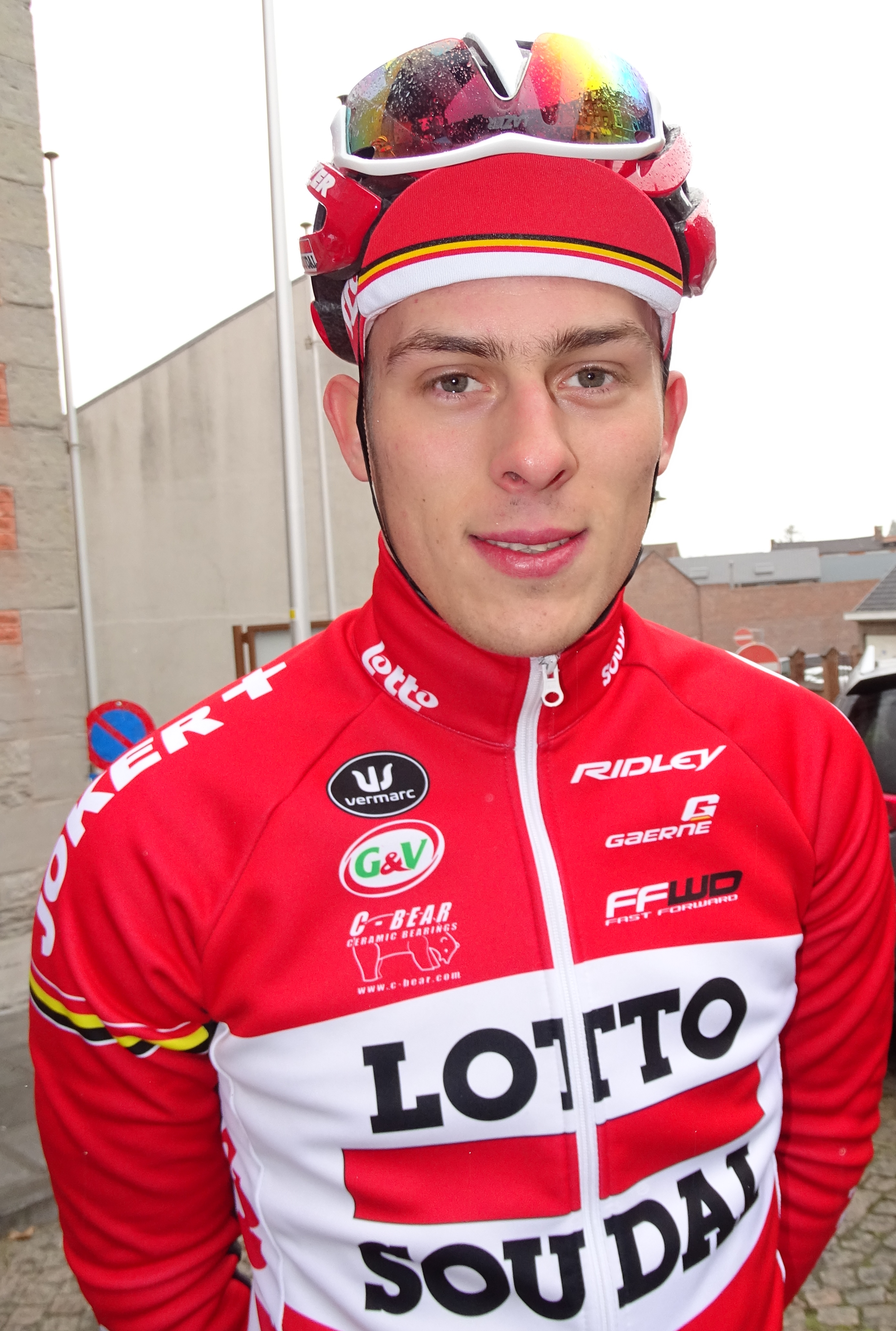 Triptyque des Monts et Châteaux 2015 Depicted person: Enzo Wouters Depicted team: Lotto-Soudal U23